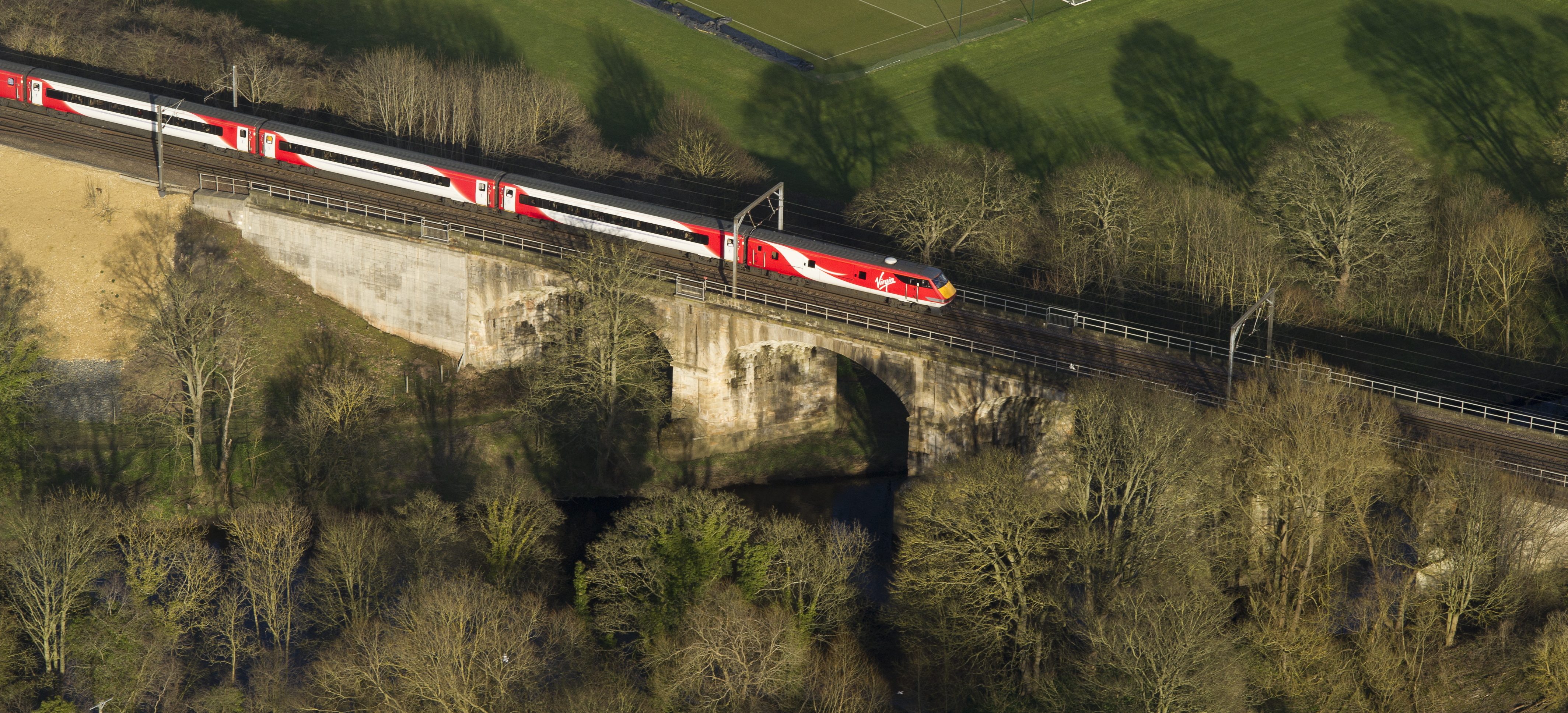 A Virgin Trains East Coast InterCity 225 set crossing a viaduct at Croft-on-Tees.